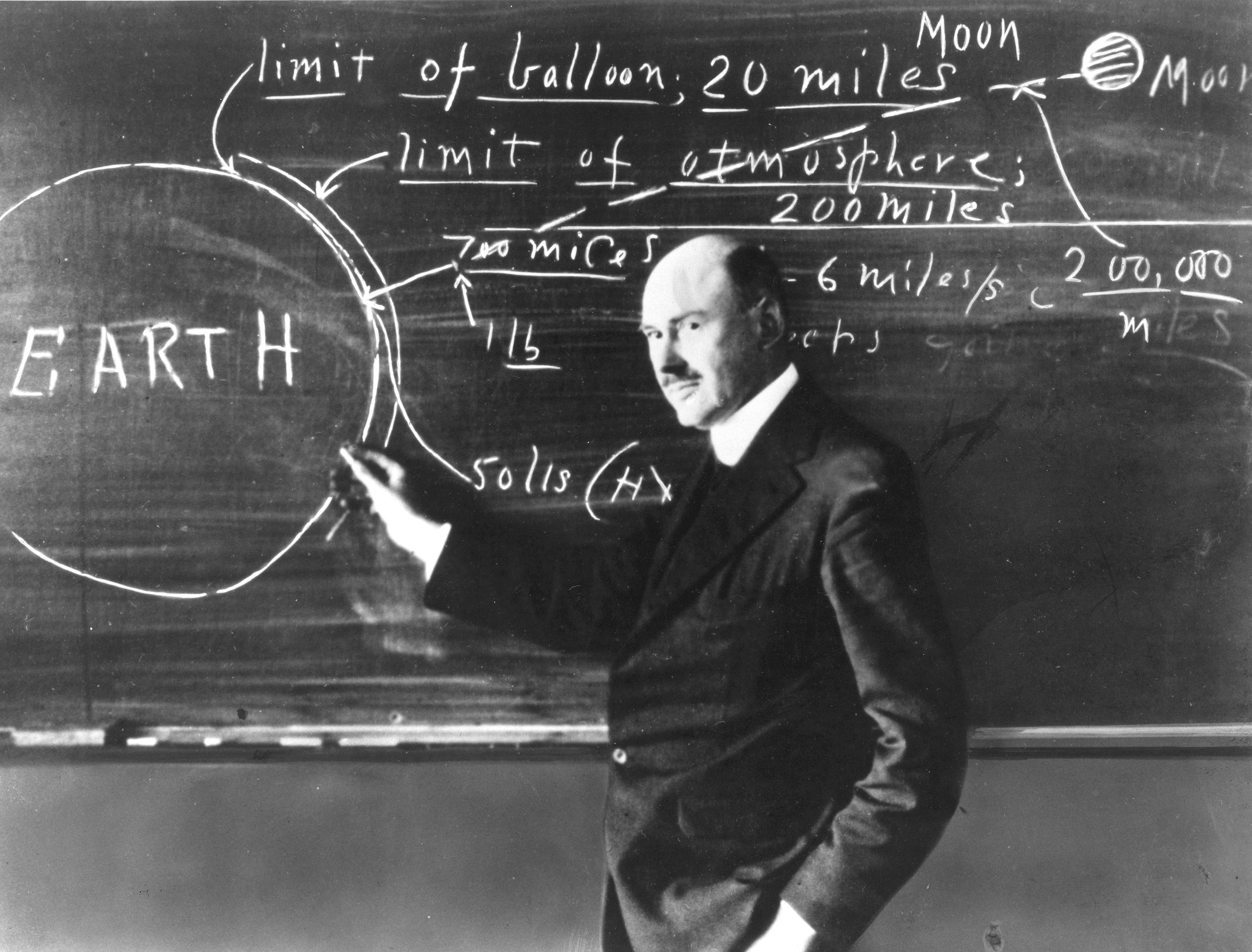 Dr. Robert H. Goddard at a blackboard at Clark University in Worcester, Massachusetts, in 1924. Goddard began teaching physics in 1914 at Clark and in 1923 was named the Director of the Physical Laboratory. In 1920 the Smithsonian Institution published his seminal paper A Method for Reaching Extreme Altitudes where he asserted that rockets could be used to send payloads to the Moon. Declaring the absurdity of rockets ever reaching the Moon, the press mocked Goddard and his paper, calling him "Moon Man." To avoid further scrutiny Goddard eventually moved to New Mexico where he could conduct his research in private. Dr. Goddard, died in 1945, but was probably as responsible for the dawning of the Space Age as the Wrights were for the beginning of the Air Age. Yet his work attracted little serious attention during his lifetime. However, when the United States began to prepare for the conquest of space in the 1950's, American rocket scientists began to recognize the debt owed to the New England professor. They discovered that it was virtually impossible to construct a rocket or launch a satellite without acknowledging the work of Dr. Goddard.